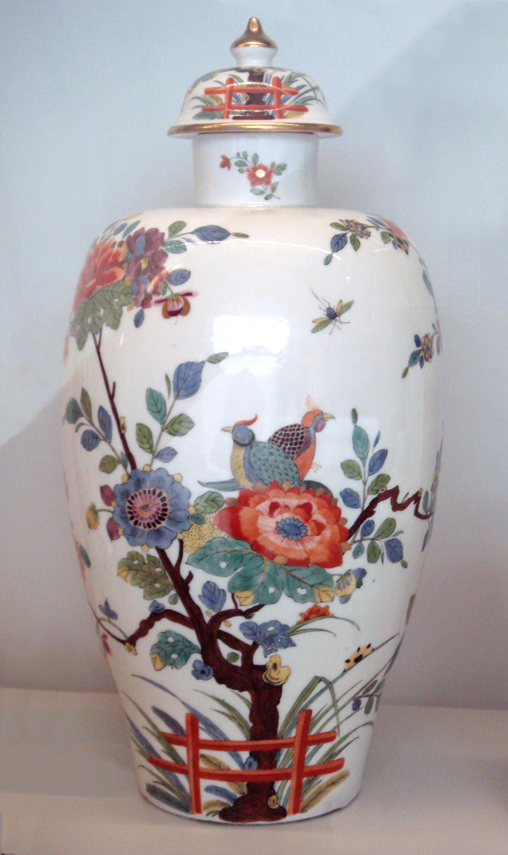 Meissen_hard_porcelain_vase_1735